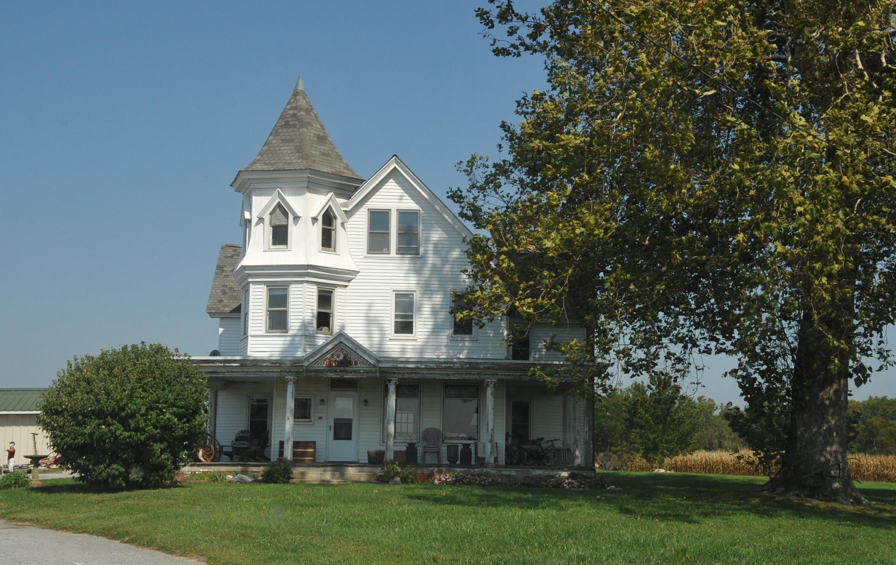 George Farmhouse LOCATED EAST OF SMYRNA ON WOODLANDS BEACH ROAD; CIRCA 1915; BOUGHT SEVERAL YEARS EARLIER BY EDMUND GEORGE FROM THE CUMMINS FAMILY. NOW APPEARS TO BE PART OF THE JOHNSON CRANBERRY FARM